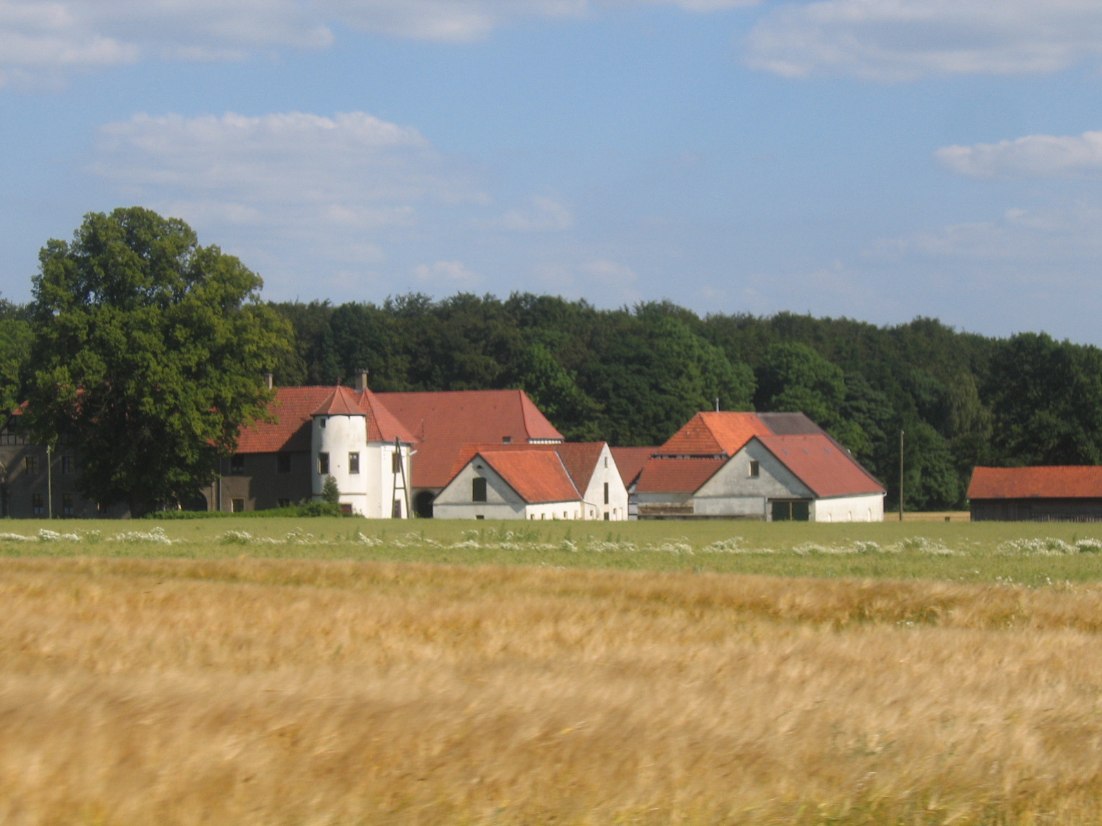 Kilver castle in Rödinghausen, District of Herford, North Rhine-Westphalia, Germany.